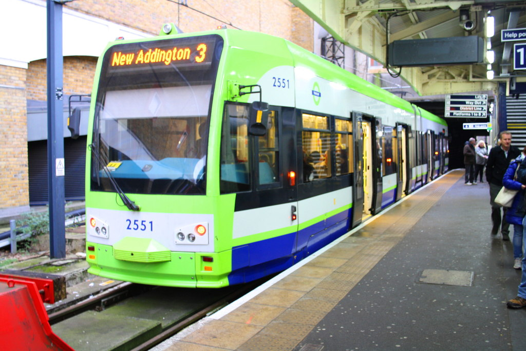 London Tramlink tram number 2551 in Wimbledon Station